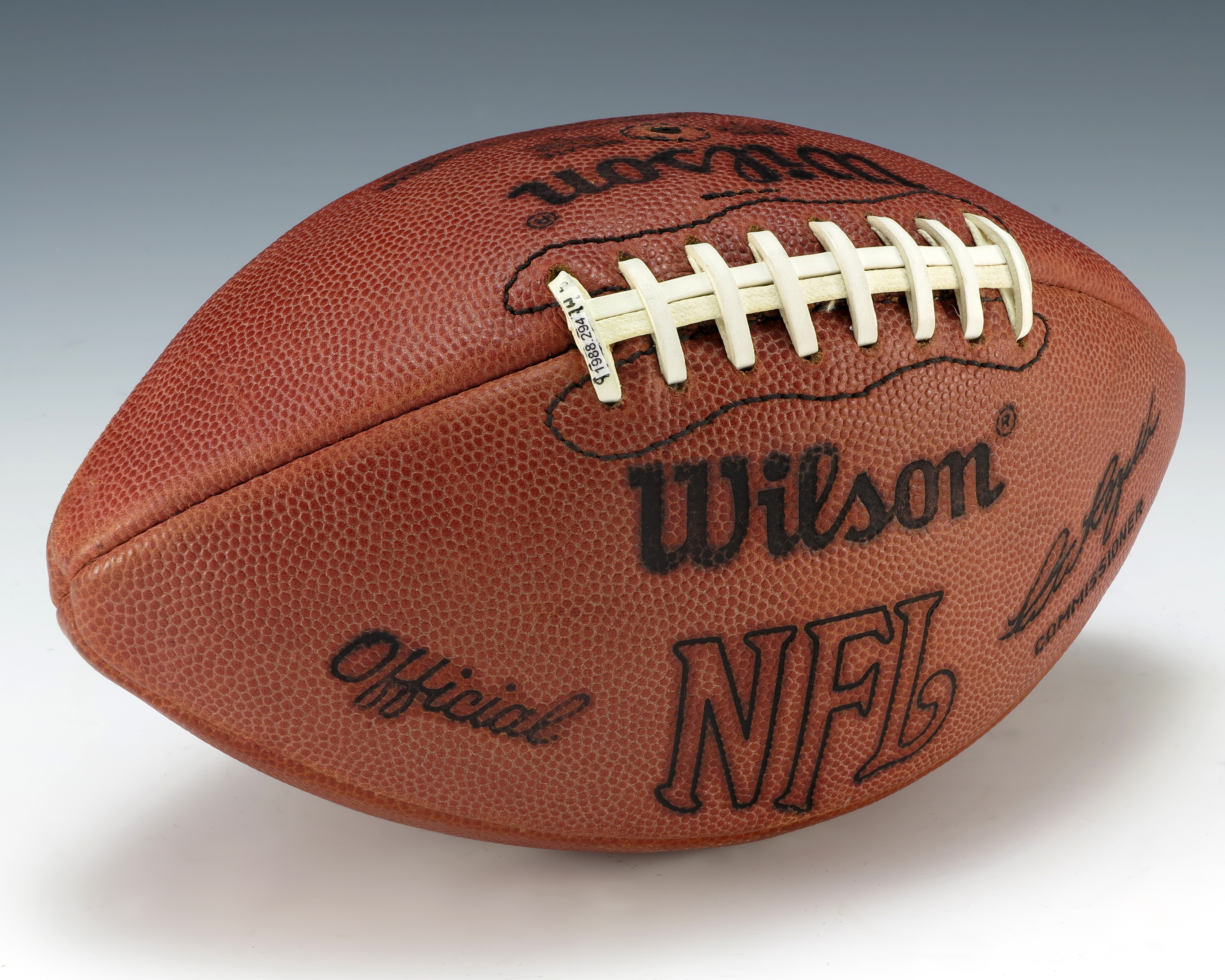 Official NFL Wilson Football that is brown with black text on top panels and white text on bottom panel, and white lace. The football features a signature from Redskins head coach George Allen written in white.